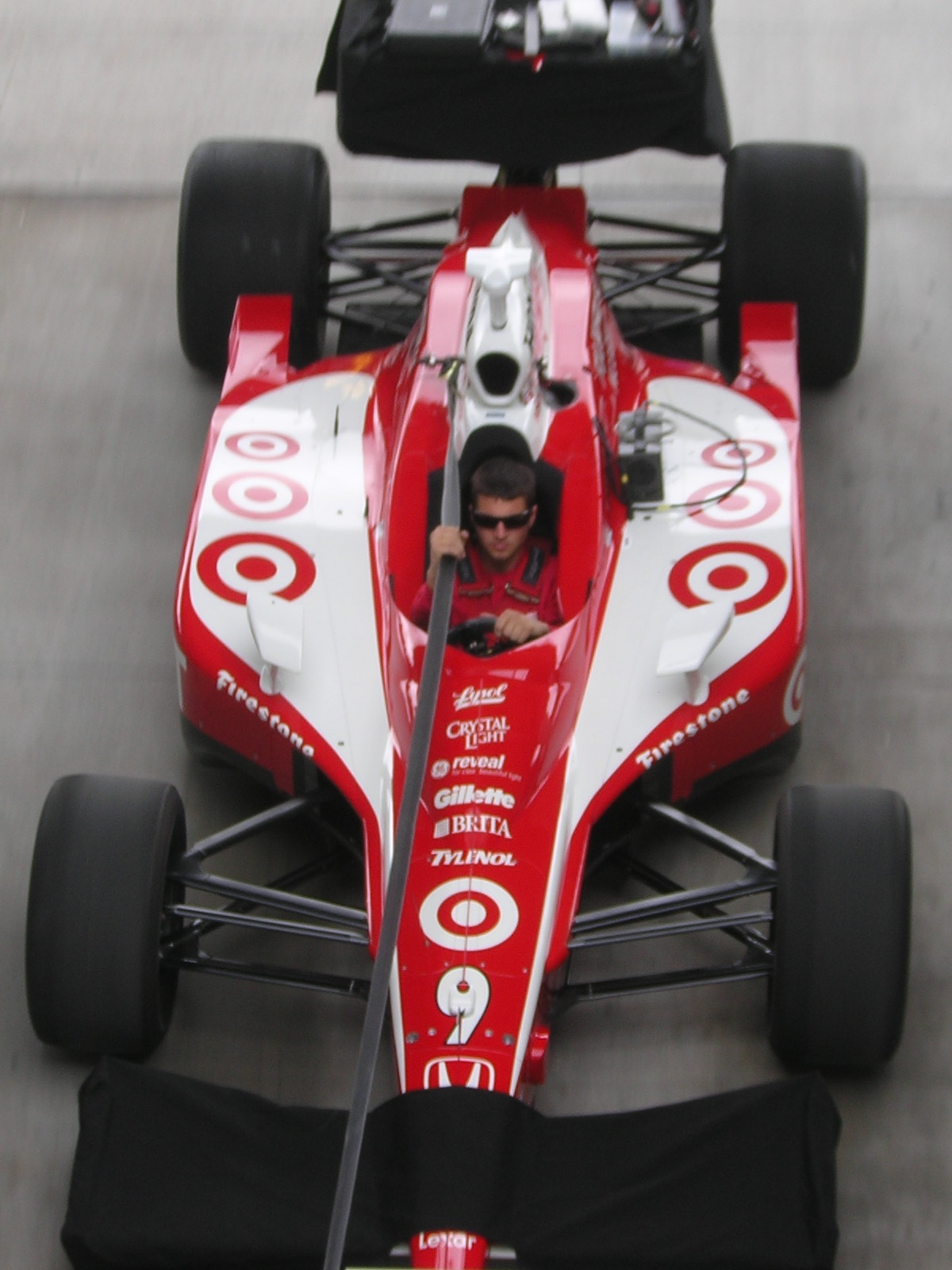 Target Chip Ganassi Racing's #9 Car driven by Scott Dixon (not pictured) preparing for practice for the 2006 Indianapolis 500